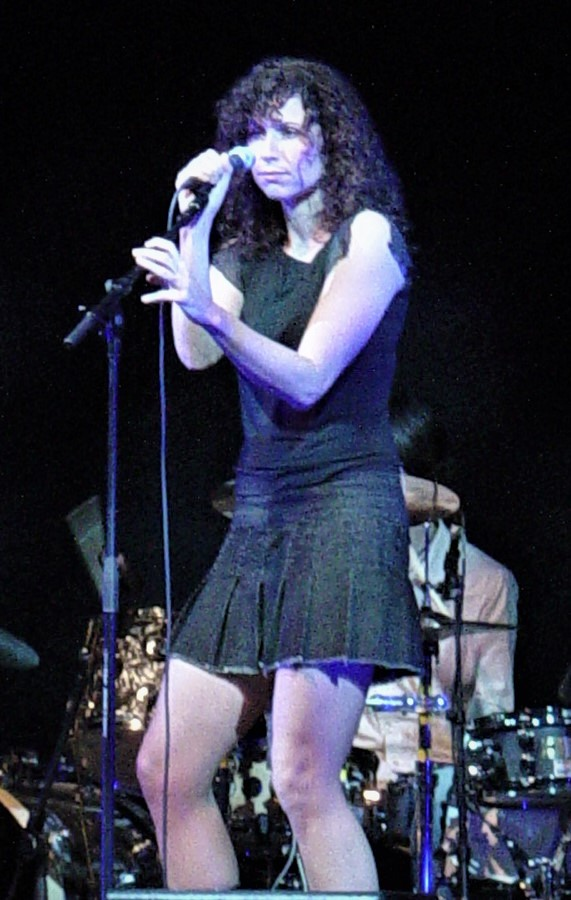 Minnie Driver, cut from The Simpsons Movie. Actress and singer Minnie Driver.